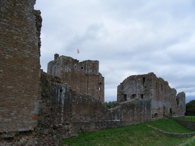 The curtain wall of Brougham Castle, Cumbria. In the background is the top of the castle's keep.